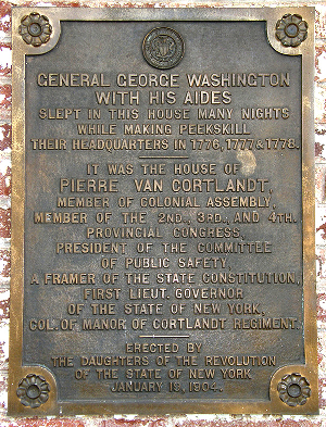 Plaque affixed to the Van Cortlandt Upper Manor House memoralizing its significant during the American Revolution.